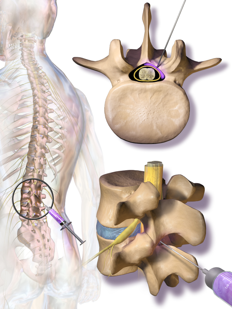 Epidural Steroid Injection. See a related animation of this medical topic.